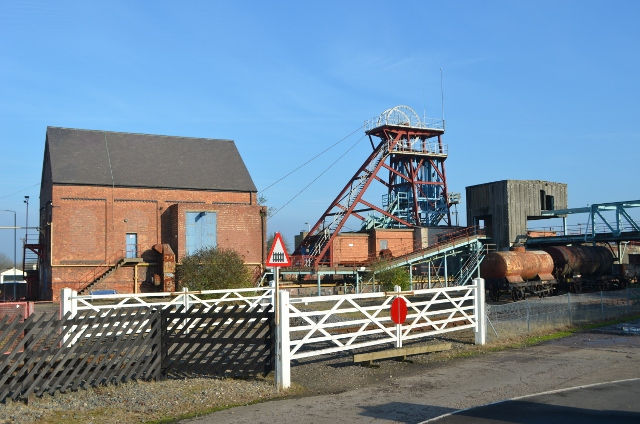 Snibston Colliery, Data from Geograph: Description: A view of the headgear and winding house. ICBM: 52.725454814637, -1.3819253216341 Location: (about 1 km from) near to Coalville, Leicestershire, Great Britain.